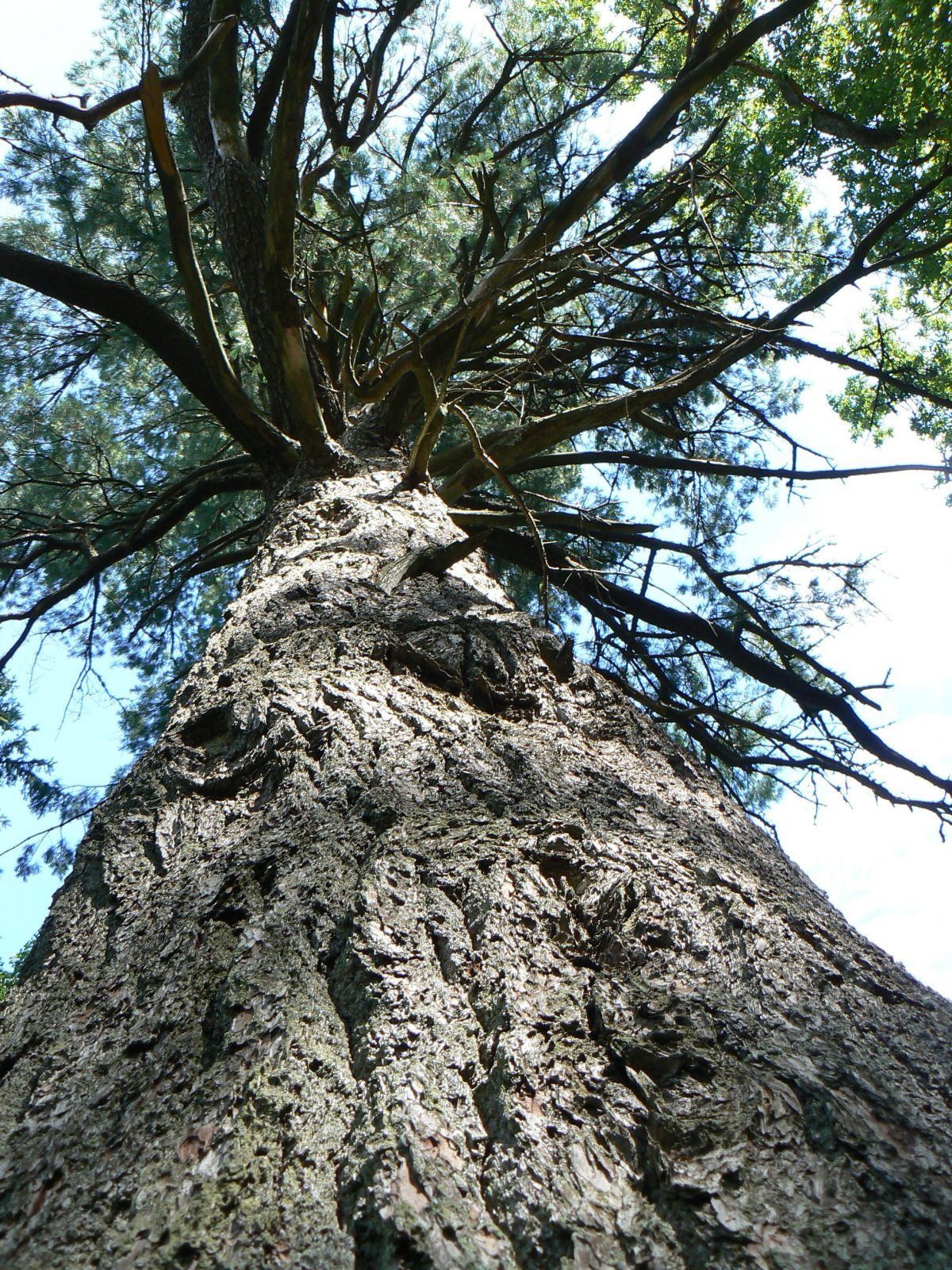 Pinus strobus in Jädivere forest park, in Estonia